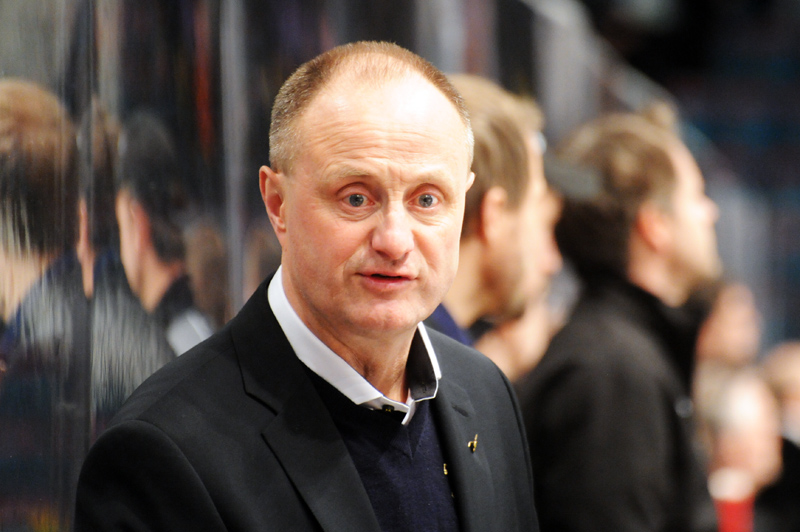 AIK head coach Anders Eldebrink